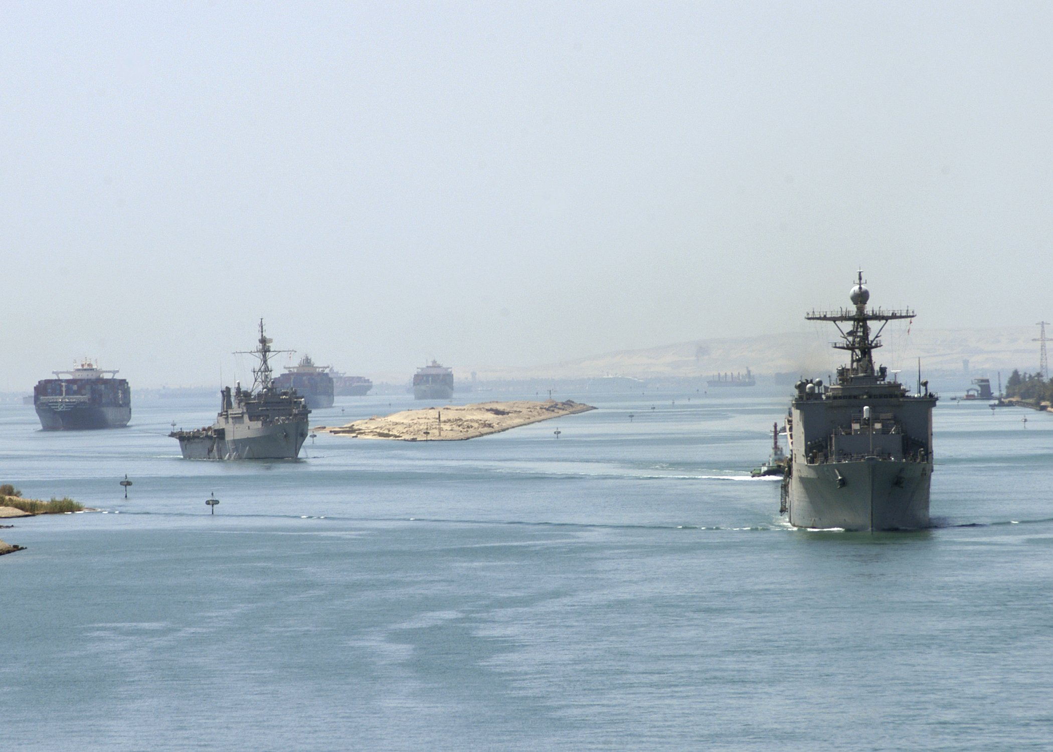 070601-N-1467R-004 SUEZ CANAL (June 1, 2007) The amphibious dock landing ship USS Oak Hill (LSD 51) and amphibious transport dock USS Shreveport (LPD 12) follow the amphibious assault ship USS Bataan (LHD 5) while transiting the Suez Canal to depart U.S. Naval Central Command area of responsibility. Bataan, commanded by Capt. Rick Snyder, left her homeport of Norfolk, Va., Jan. 4. on a regularly scheduled deployment as the flagship of the Bataan Expeditionary Strike Group in support of maritime operations. Maritime operations help set the conditions for security and stability in the maritime environment and complement the counter-terrorism and security efforts in regional nations’ littoral waters. Coalition forces also conduct maritime operations under international maritime conventions to ensure security and safety in international waters so that commercial shipping and fishing can occur safely in the region.